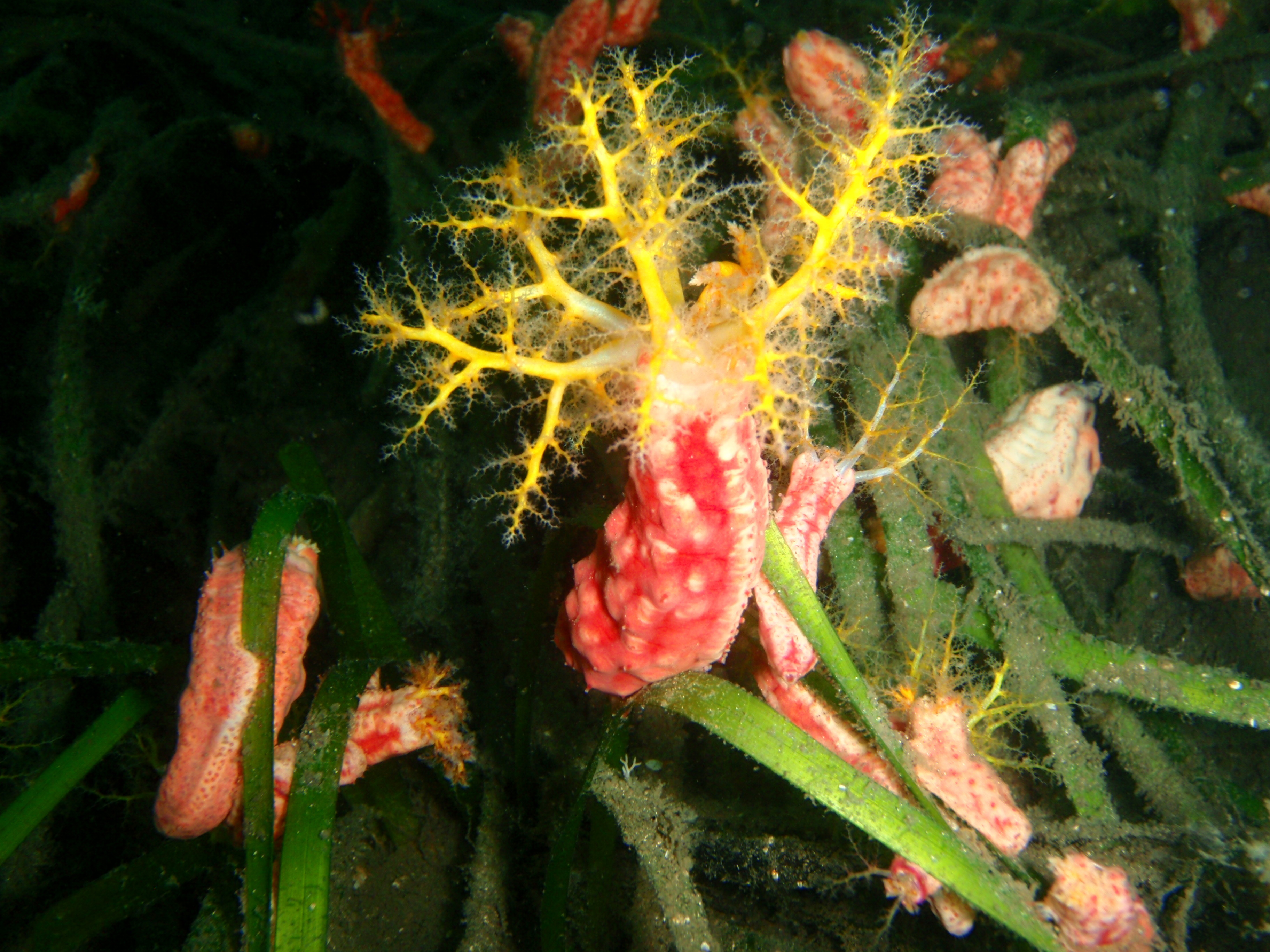 Red box sea cucumber Cercodemas anceps at Oyster Harbour moorings, Albany, Western Australia